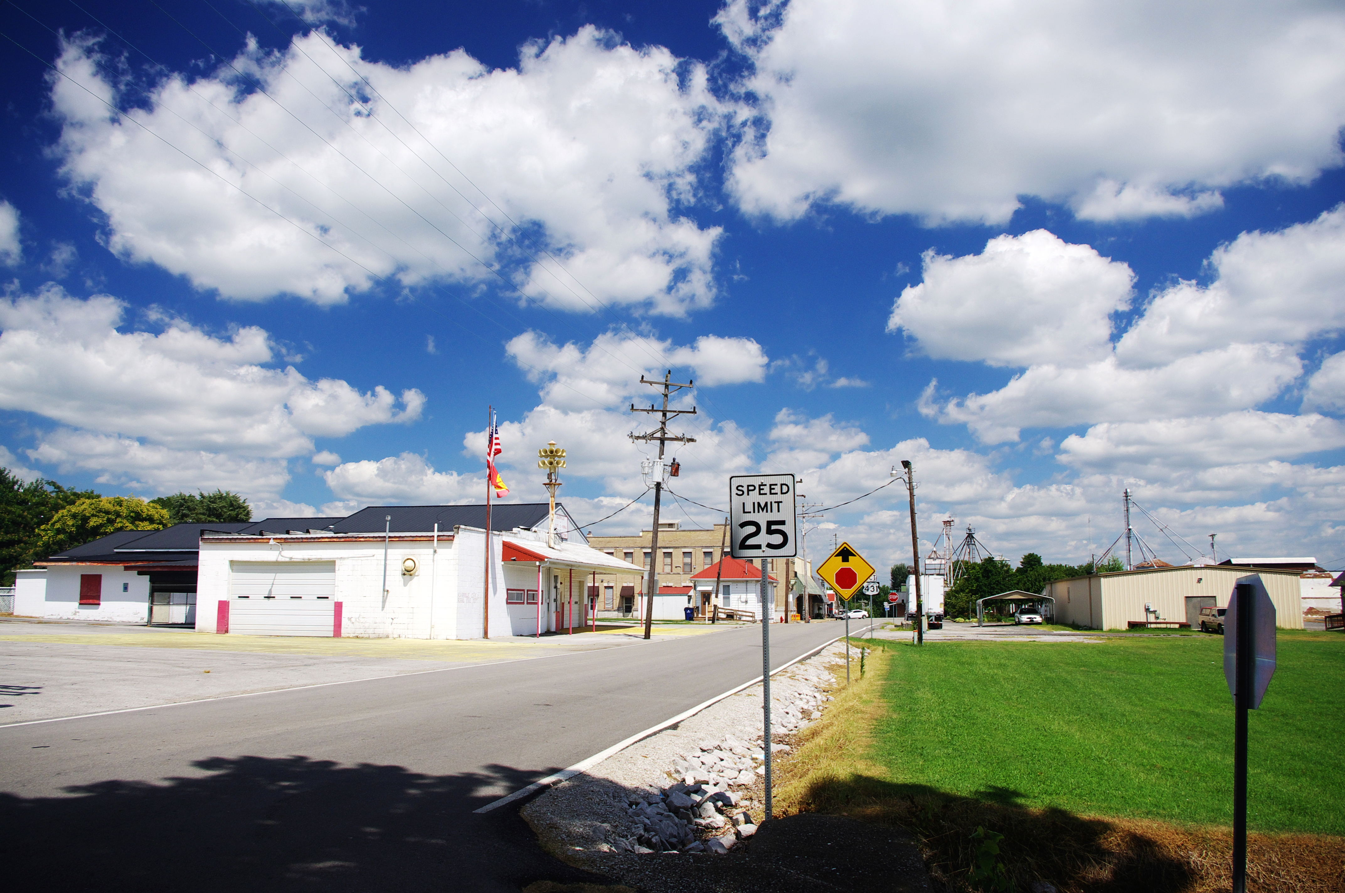 View along Gallatin Street (Kentucky Route 591) in Adairville, Kentucky, United States. Adairville Rural Fire Department Station 2 is on the left.